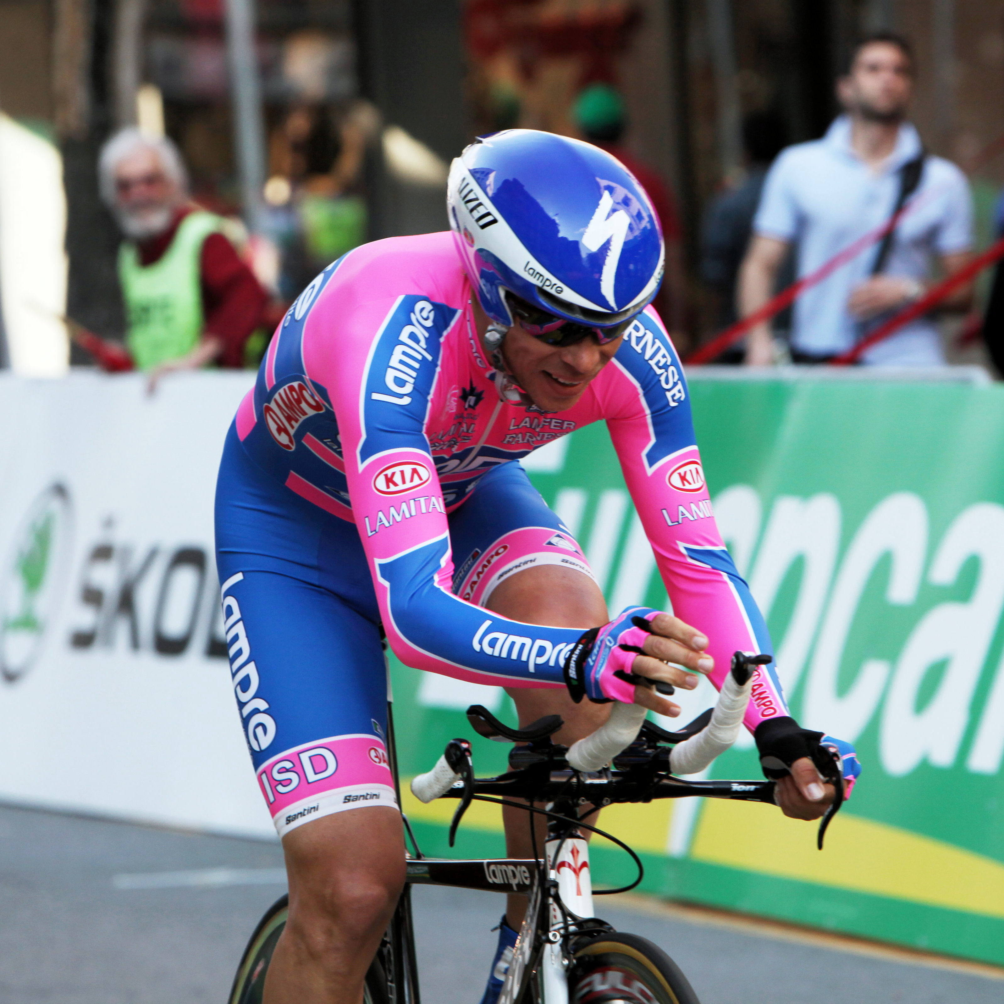 Andrey Kashechkin at the prologue of the 2011 Tour de Romandie